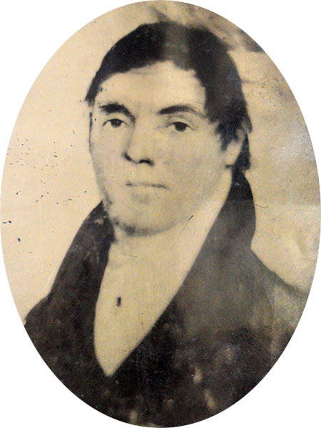 Tintype image of a cameo of Cuthbert Grant